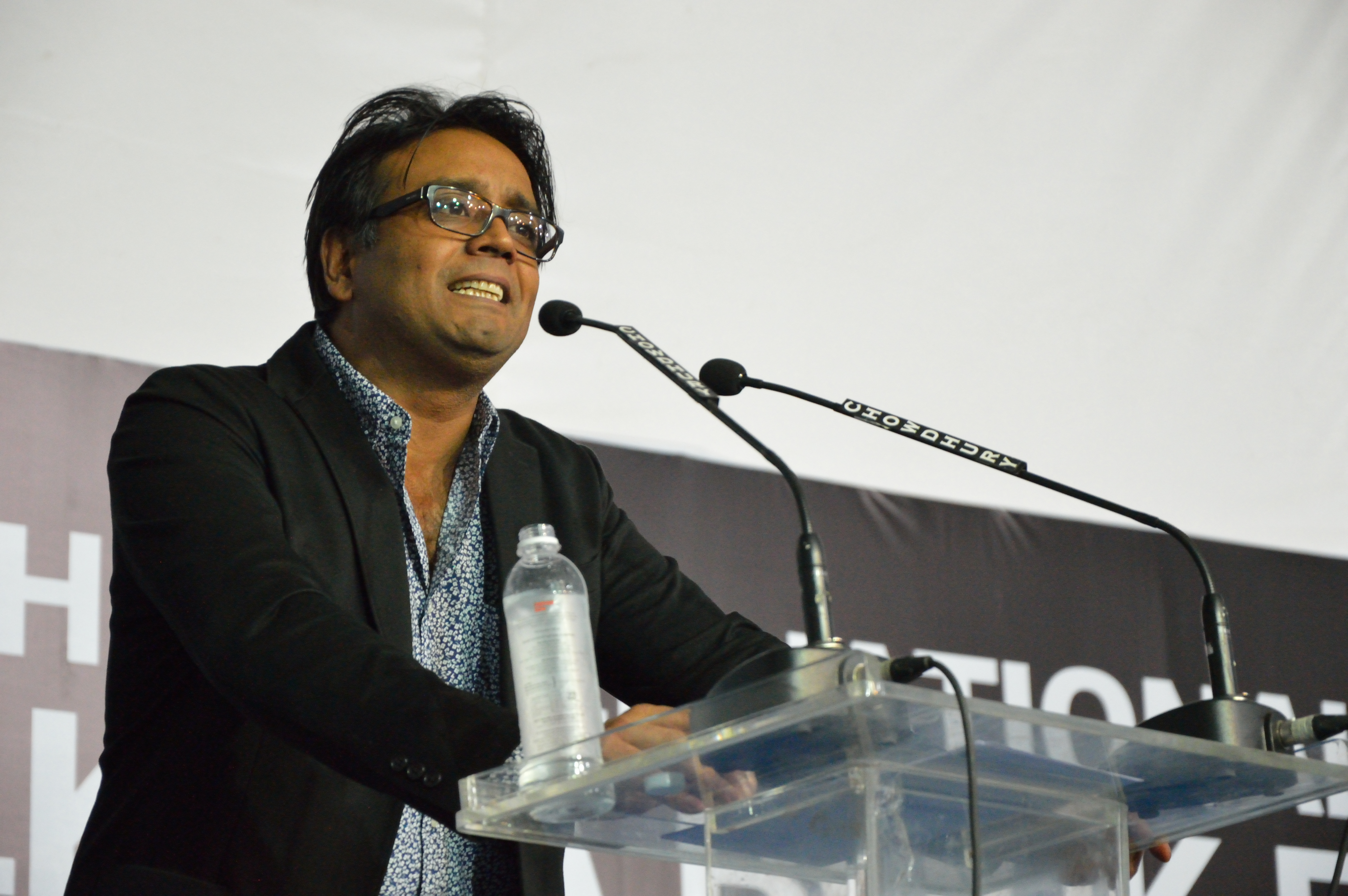 Photographed durintg the 39th International Kolkata Book Fair at Milan Mela Complex , Kolkata.